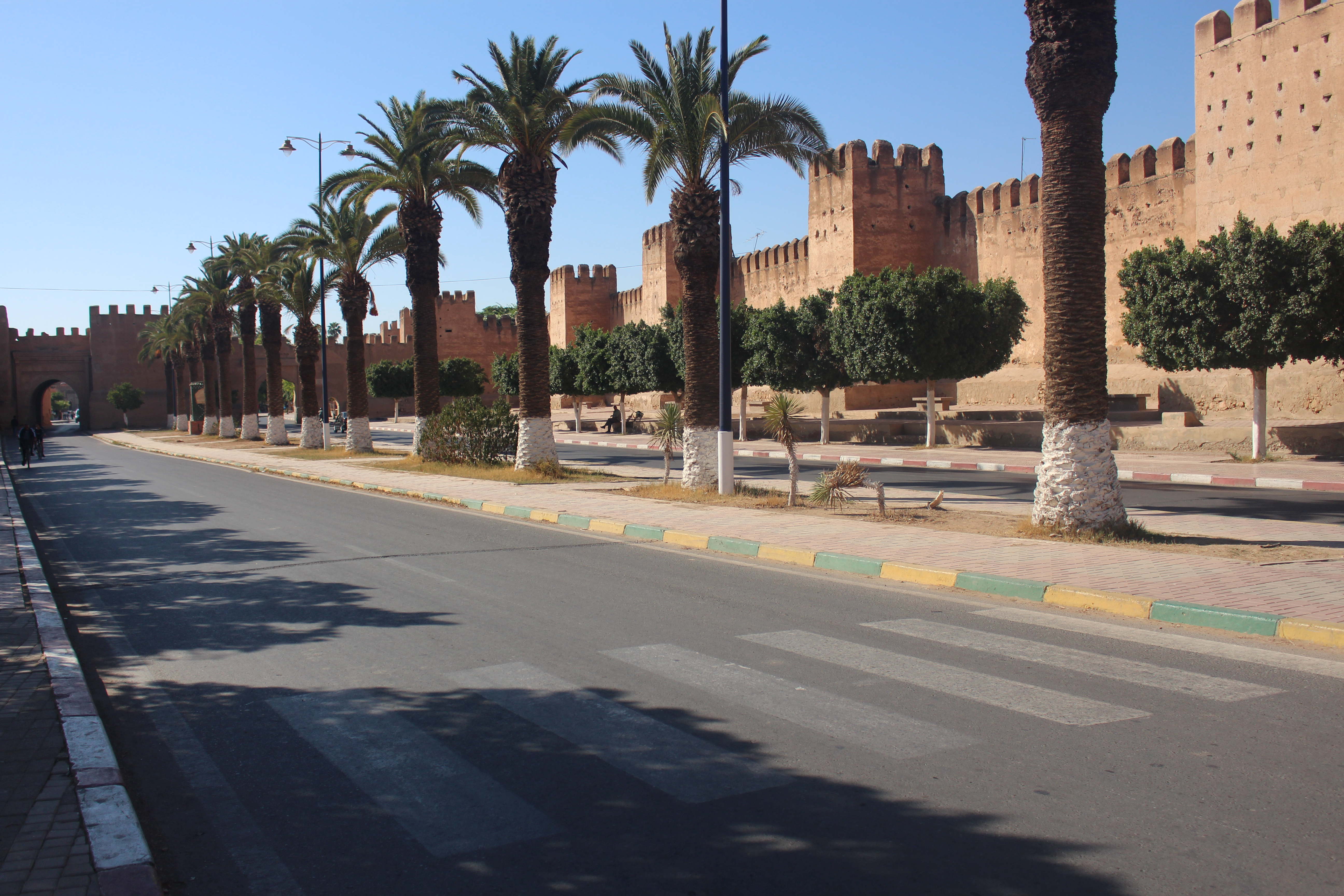 The Walls of Taroudant City, near to 20 August Square